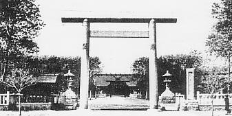 Hsinking Shrine